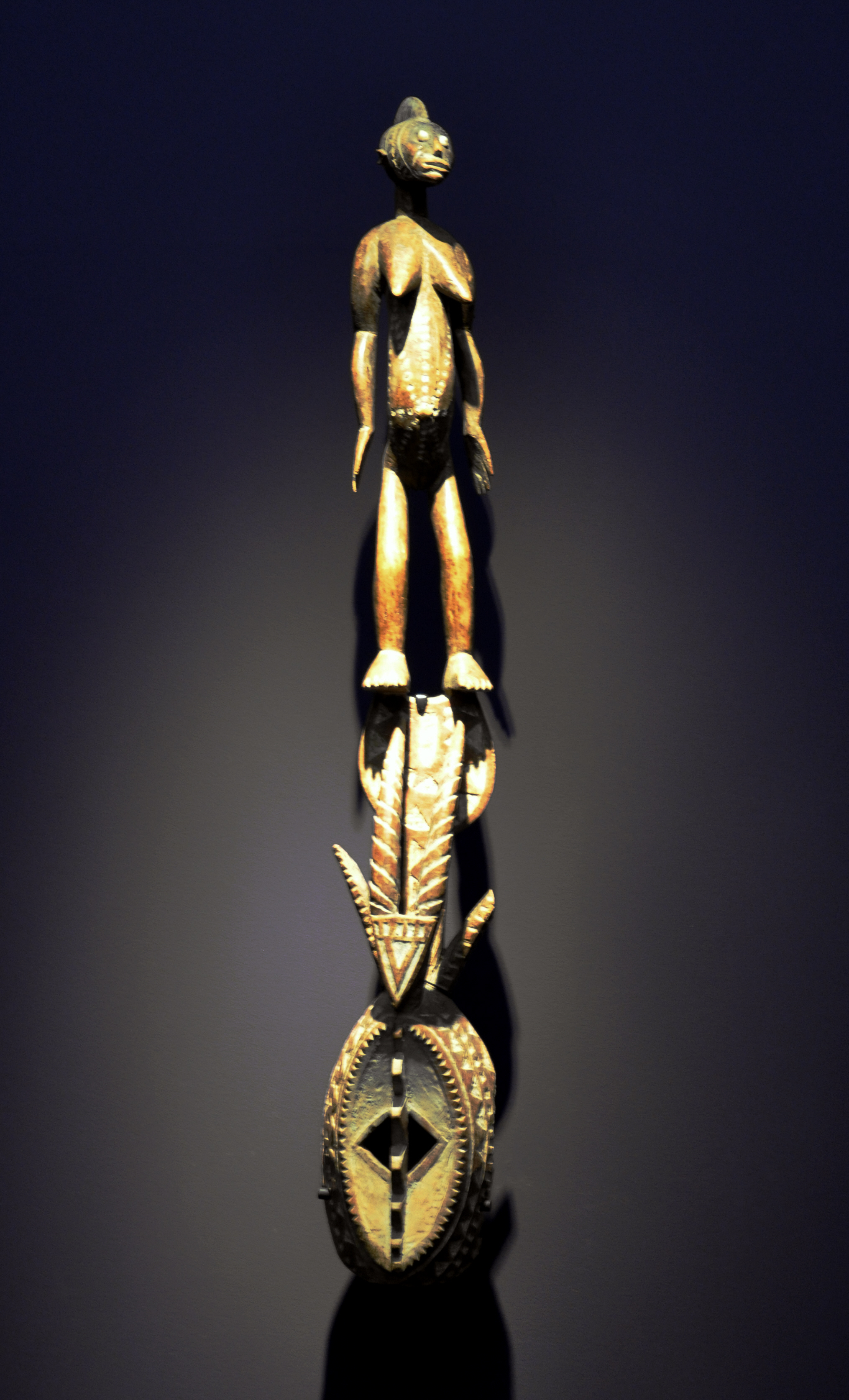 Mask karan-wemba, Burkina Faso, Mossi workshop, Yatenga region, early 20th century; wood; Museum Rietberg, Zurich; Inv. no. RAF 231